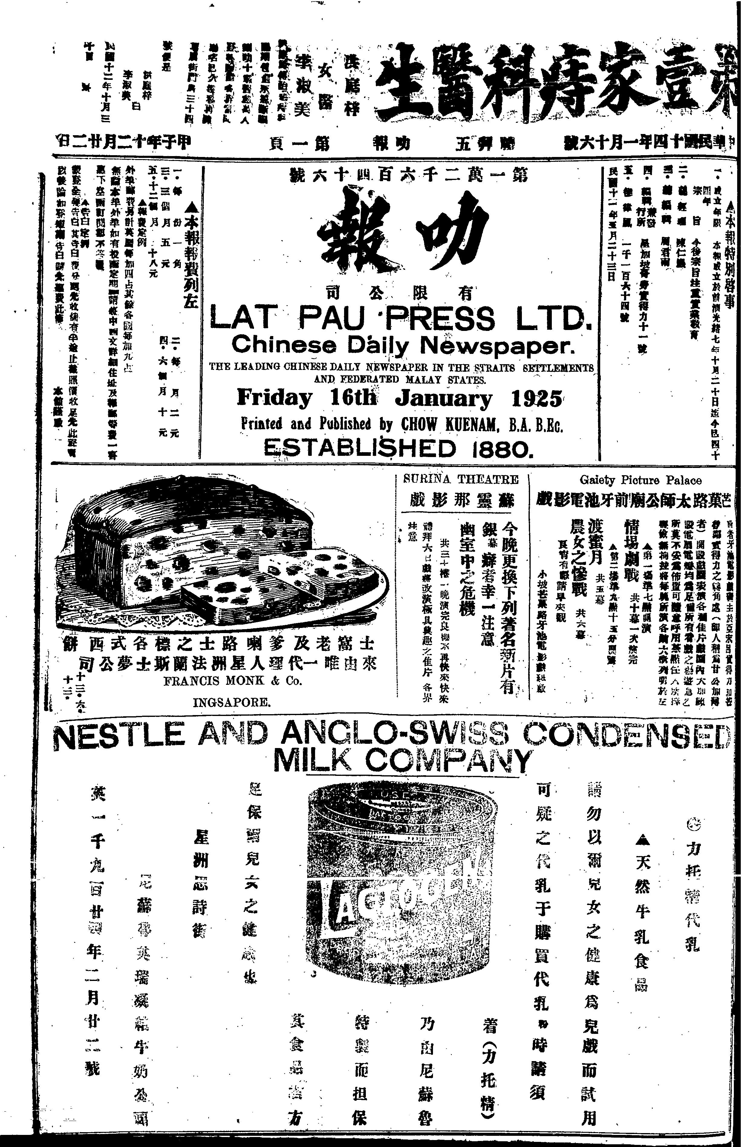 The front page of the Lat Pau newspaper of 16 January 1925. From this date, the newspaper switched from using Classical Chinese to Written vernacular Chinese (白话 báihuà). 中文（新加坡）: 叻報 – 民國14年1月16日的報導已改用白話文